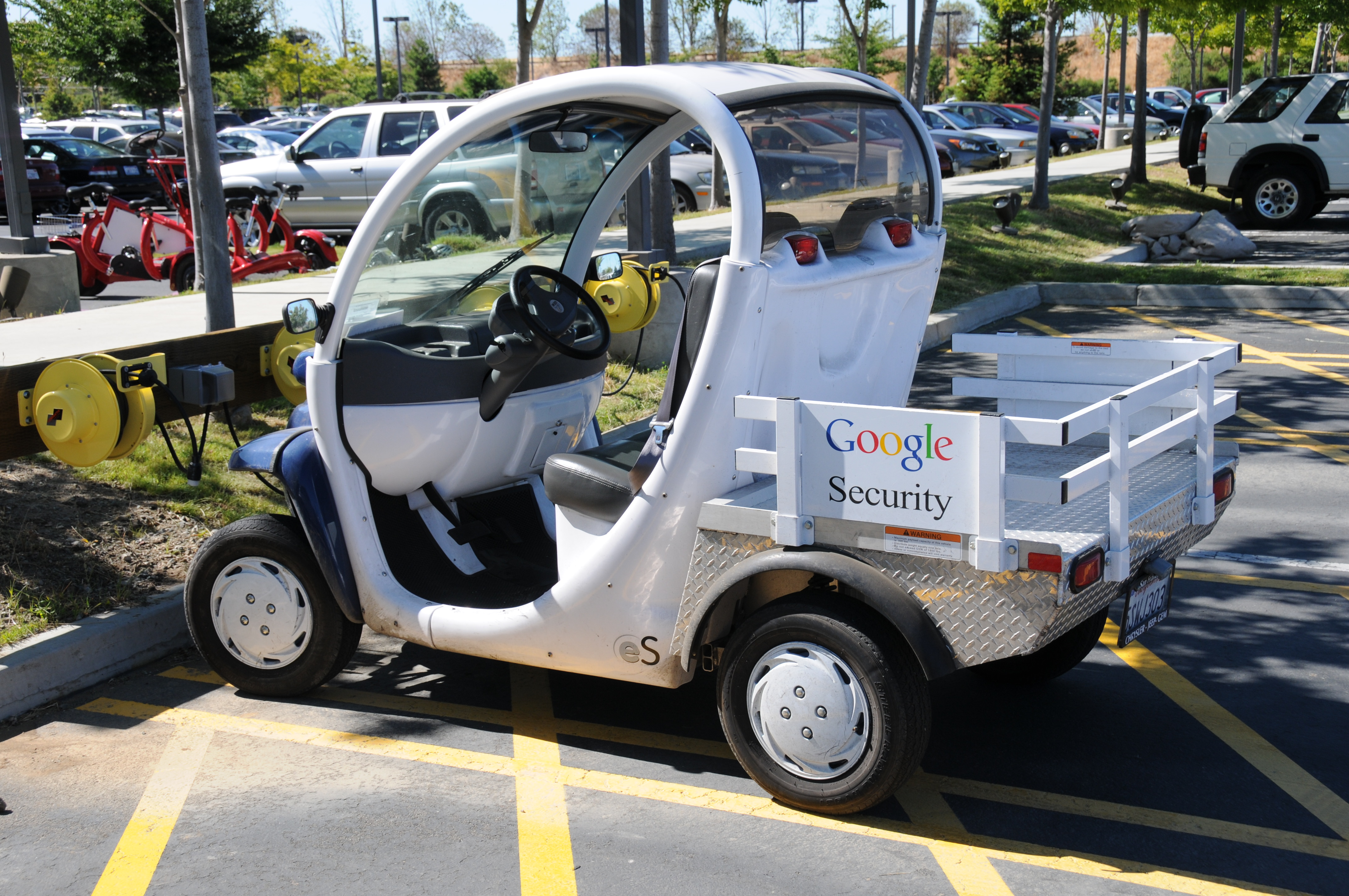 Google Electric Car Seciurity 2008 (Viaje con SafeCreative a San Francisco al Creative Commons Technology Summit en GooglePlex)